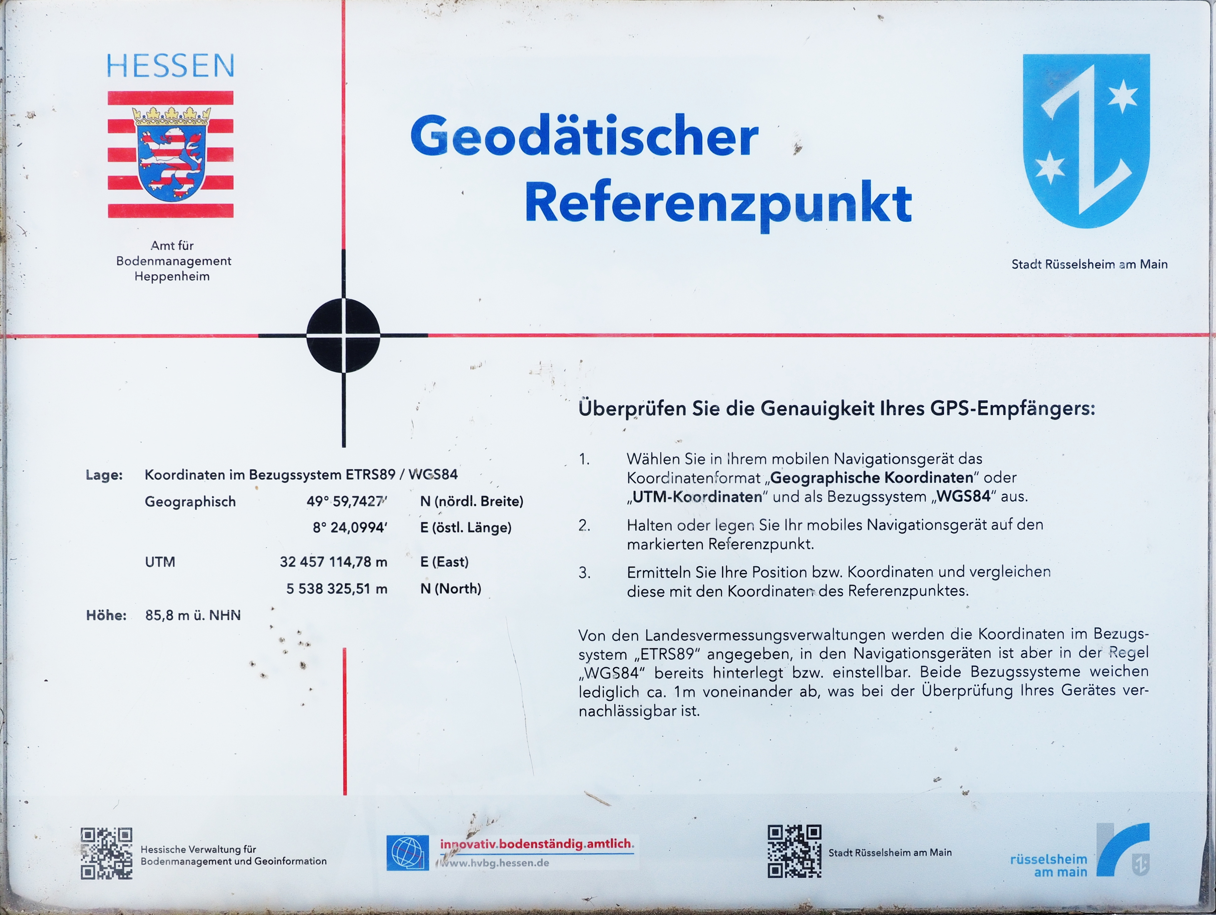 Geodesic Reference Point in Rüsselsheim, Am Opelsteg